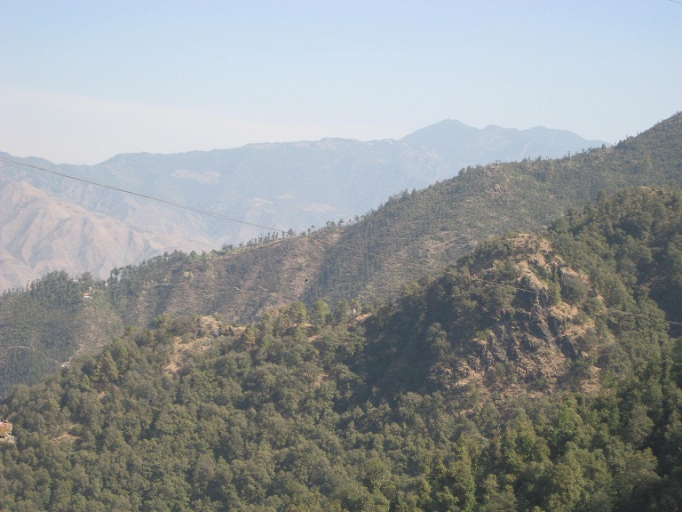 Image from mussoorie